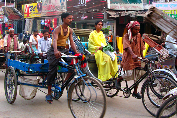 Traffic in one of Varanasi's main streets.